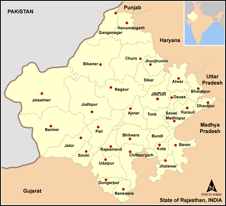 Map of Rajasthan state, India with district boundaries and city markers.